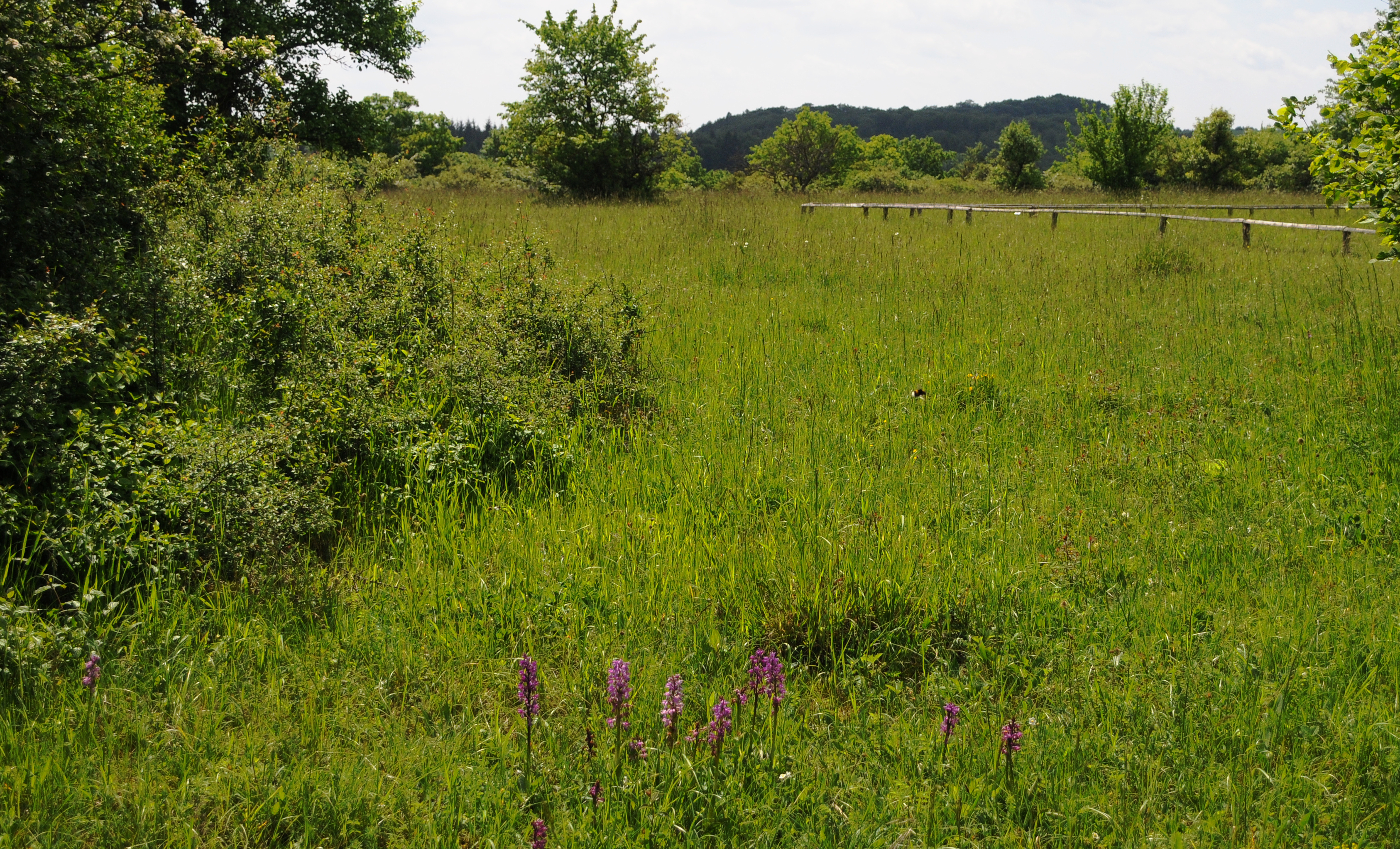 A group of orchis mascula in the foreground in the nature reserve "Perfeist" near Wasserliesch, Konz, Germany.